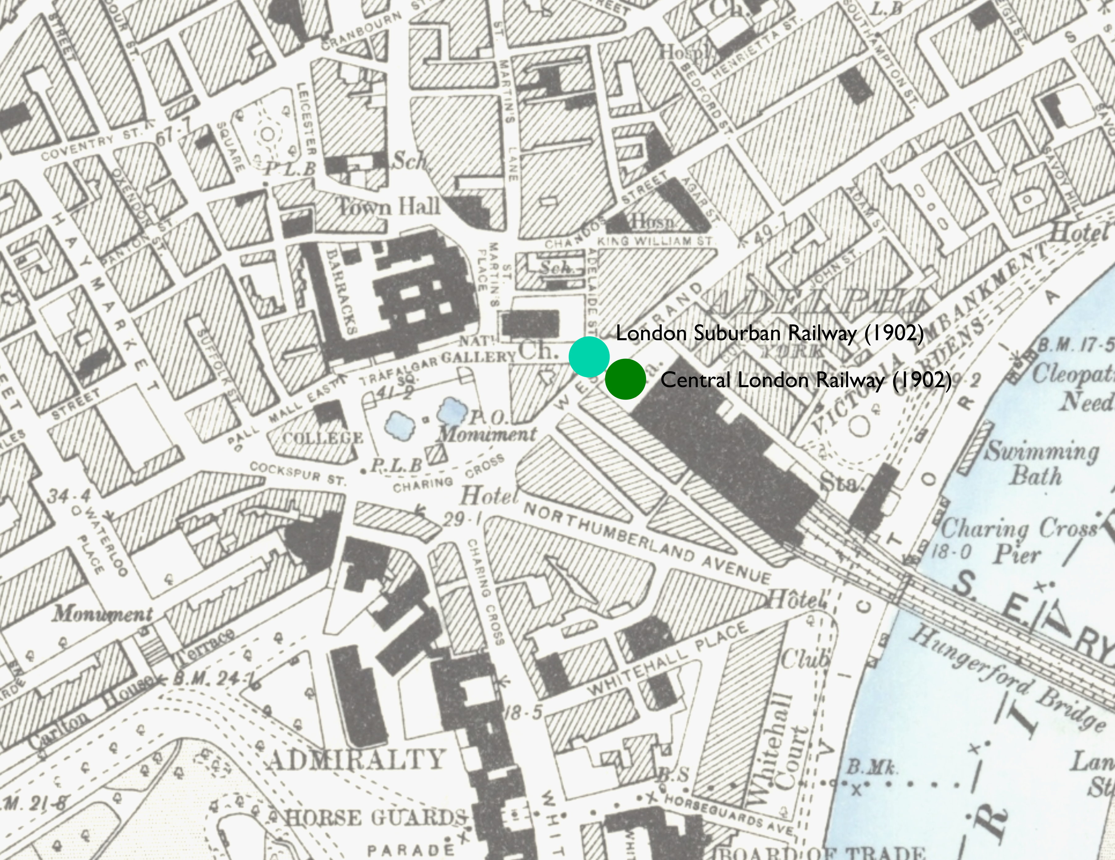 Map showing locations of stations proposed in 1902 in parliamentary bills for underground stations in the Charing Cross area.